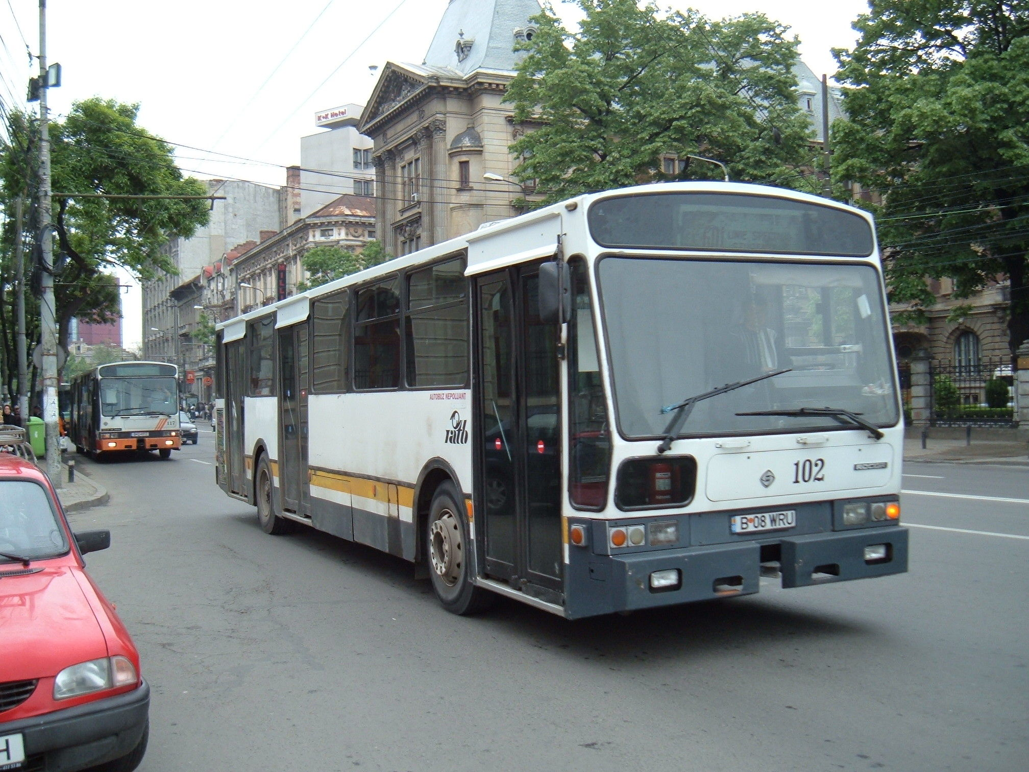 Public bus in Bucharest, Romania (Rocar De Simon U410 or U412 type). RATB București company.